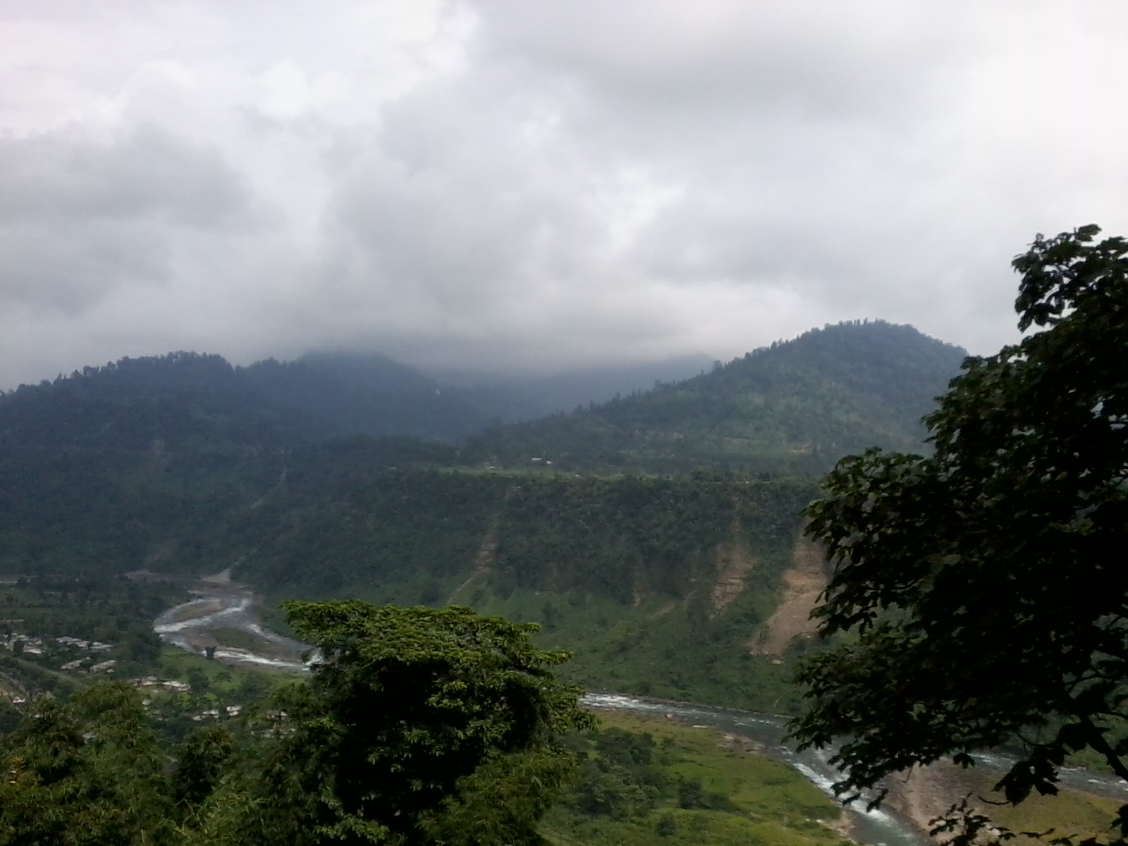 this is picture of the place named jhallong.we could see a river under there named Jhaldhaka.Jhallong is in the Darjelling district and under Kalimpong sub-division.